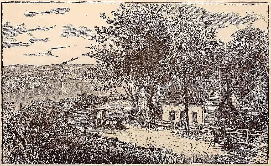 Engraving of the birthplace of Ulysses S. Grant, taken from book by James P. Boyd, 1885; Structure and surrounding area is historically accurate.